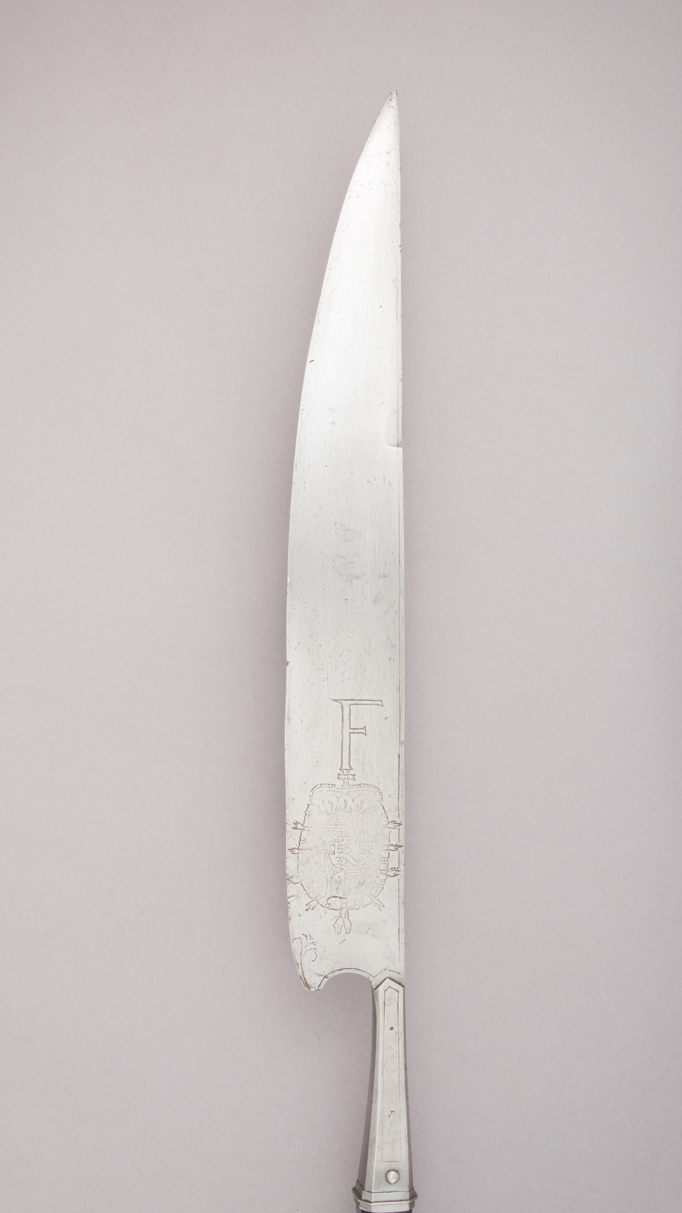 German; Couse; Shafted Weapons